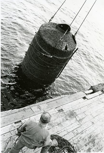 The boiler of the freighter "Indiana" is raised from the bottom of Lake Superior, where the ship sank in 1858. The salvage effort was jointly sponsored by the Smithsonian Institution, the United States Navy and the Army Corps of Engineers. Artifacts were sent to the National Museum of American History's collections storage at the Museum Support Center. Captain Vincent Shanahan USNR supervises raising of the boiler.